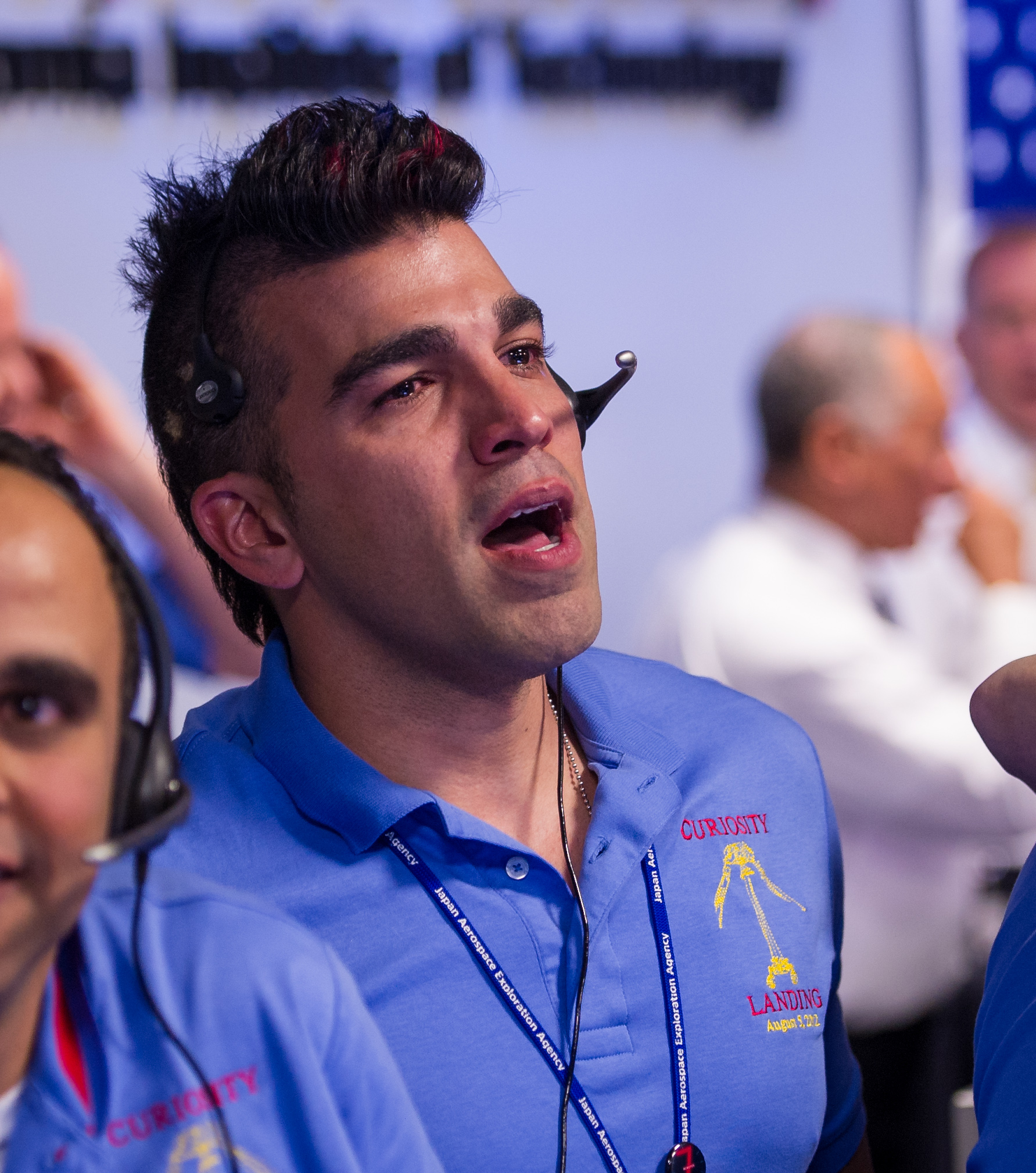 Mars Science Laboratory (MSL) Systems Engineer Bobak Ferdowsi is seen reacting after the MSL rover Curiosity successfully landed on Mars, Sunday, Aug. 5, 2012 at the Jet Propulsion Laboratory in Pasadena, Calif. Ferdowsi is known for changing his hair style for each mission or big event at JPL. Curiosity was designed to assess whether Mars ever had an environment able to support small life forms called microbes.